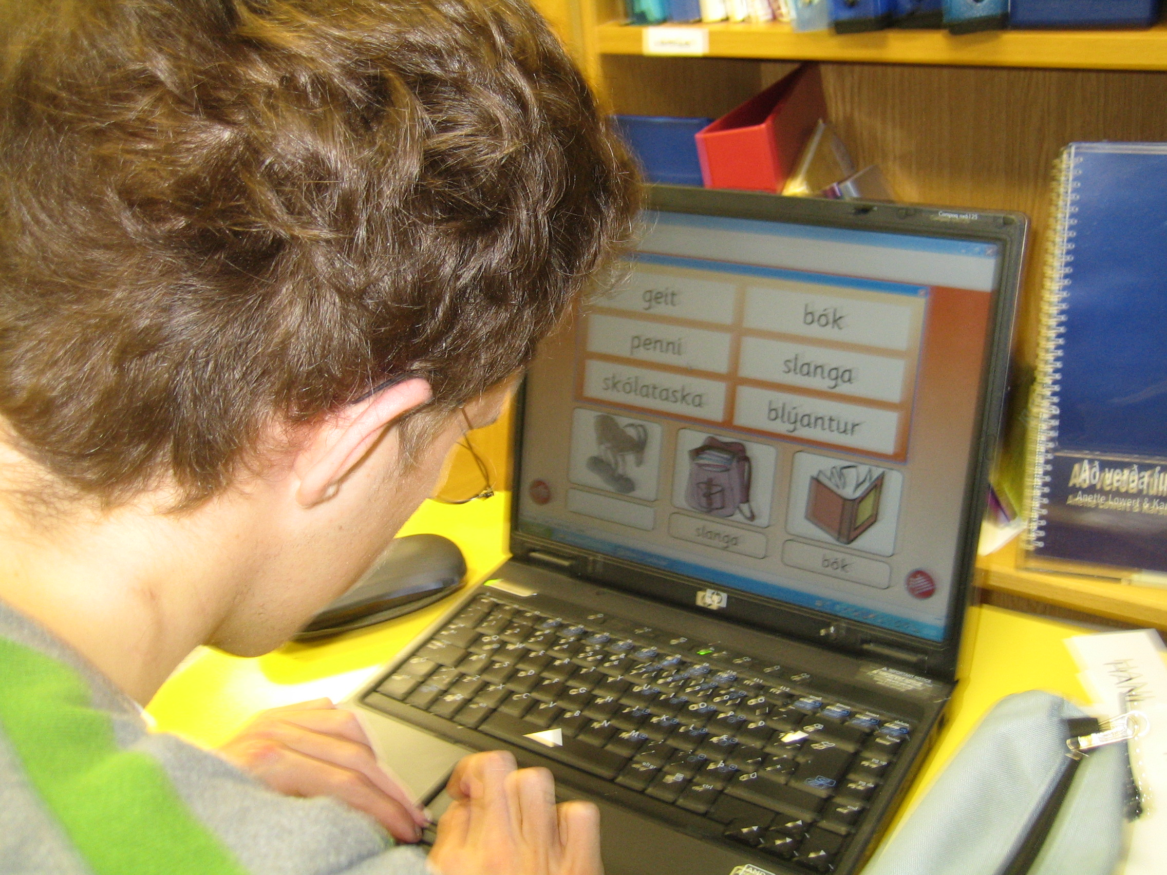 Student working on task in software program in Clicker5 photo by Guðrún Hallgrímsdottir